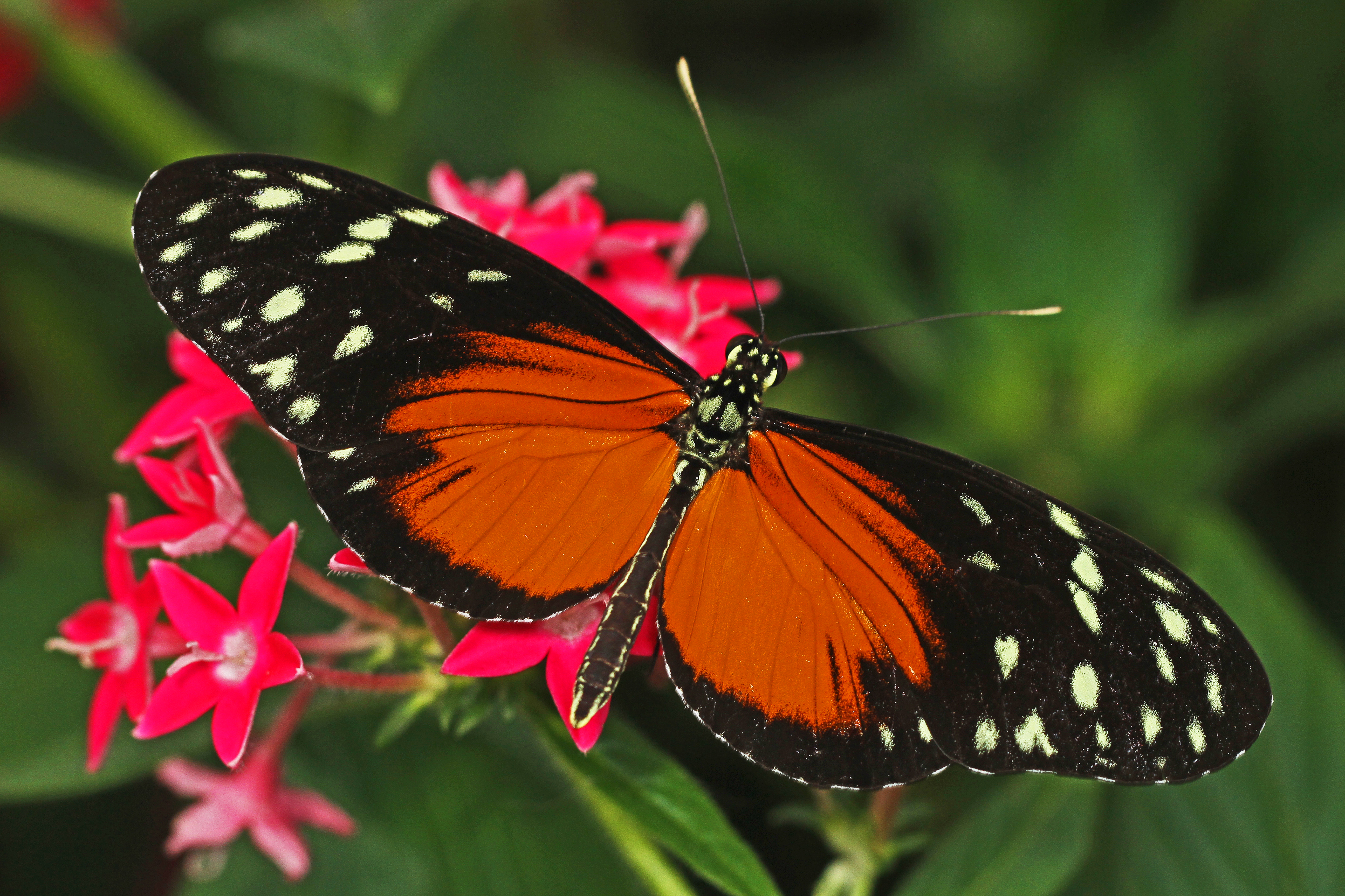 Heart-spotted Heliconian - Heliconius hecale,Brookside Gardens "Wings of Fancy", Wheaton, Maryland. This was at a butterfly exhibit. Someday, I'd like to see these in the wild!